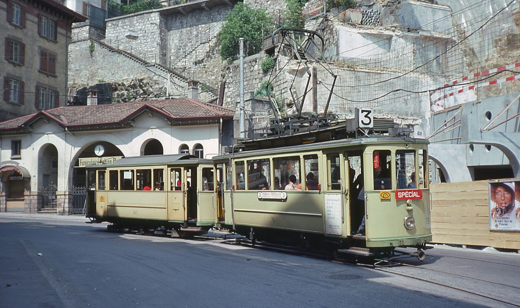 About two months before the end of tram service on Neuchatel line 3, a tram set (consisting of two-axle car 76 hauling trailer 143) operating a special trip takes the curve from Rue de l'Ecluse into Rue du Seyon, passing the Ecluse station of the Ecluse–Plan Funicular, on the way into the city centre. The last day of tram service on line 3 was 11 July 1976.